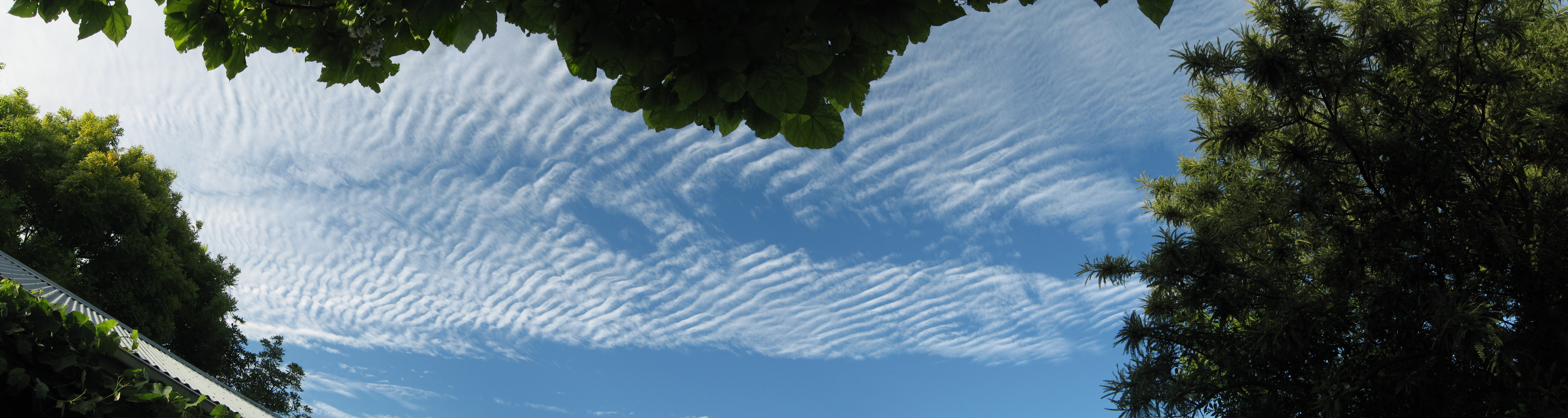 Altostratus undulatus cloud